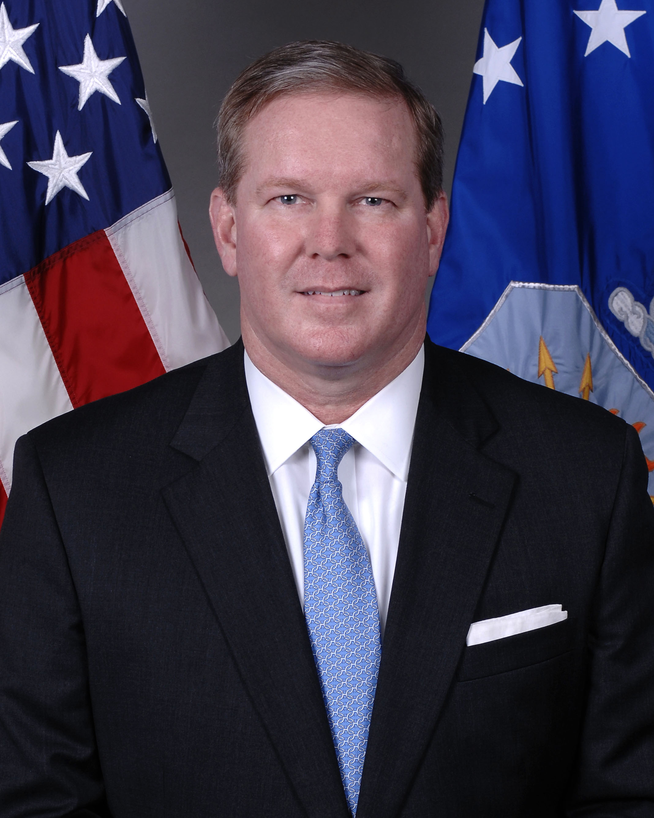 John H. Gibson II, Assistant Secretary of the Air Force, 2008